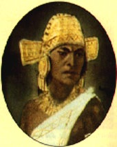 Portrait of Saguanmachica, an indean ruler of muisca.